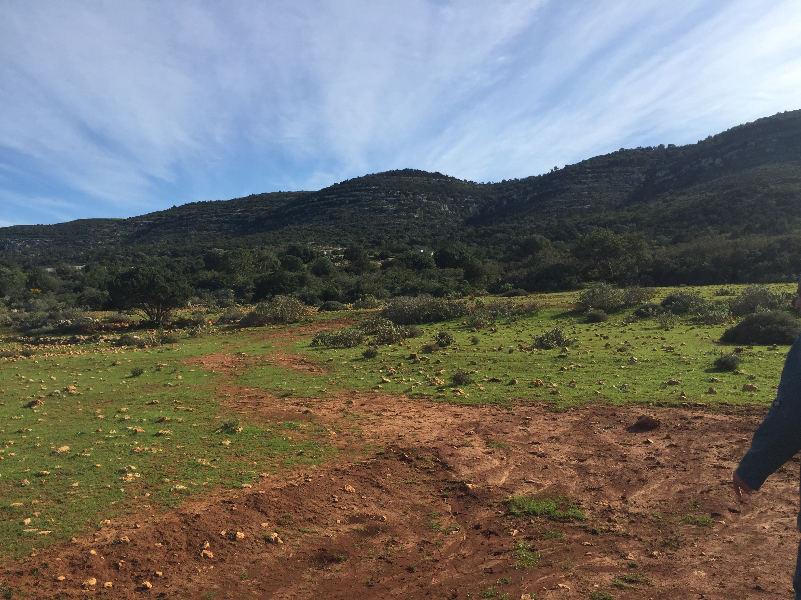 This is an image with the theme "Africa on the Move or Transport" from: Libyan Arab Jamahiriya